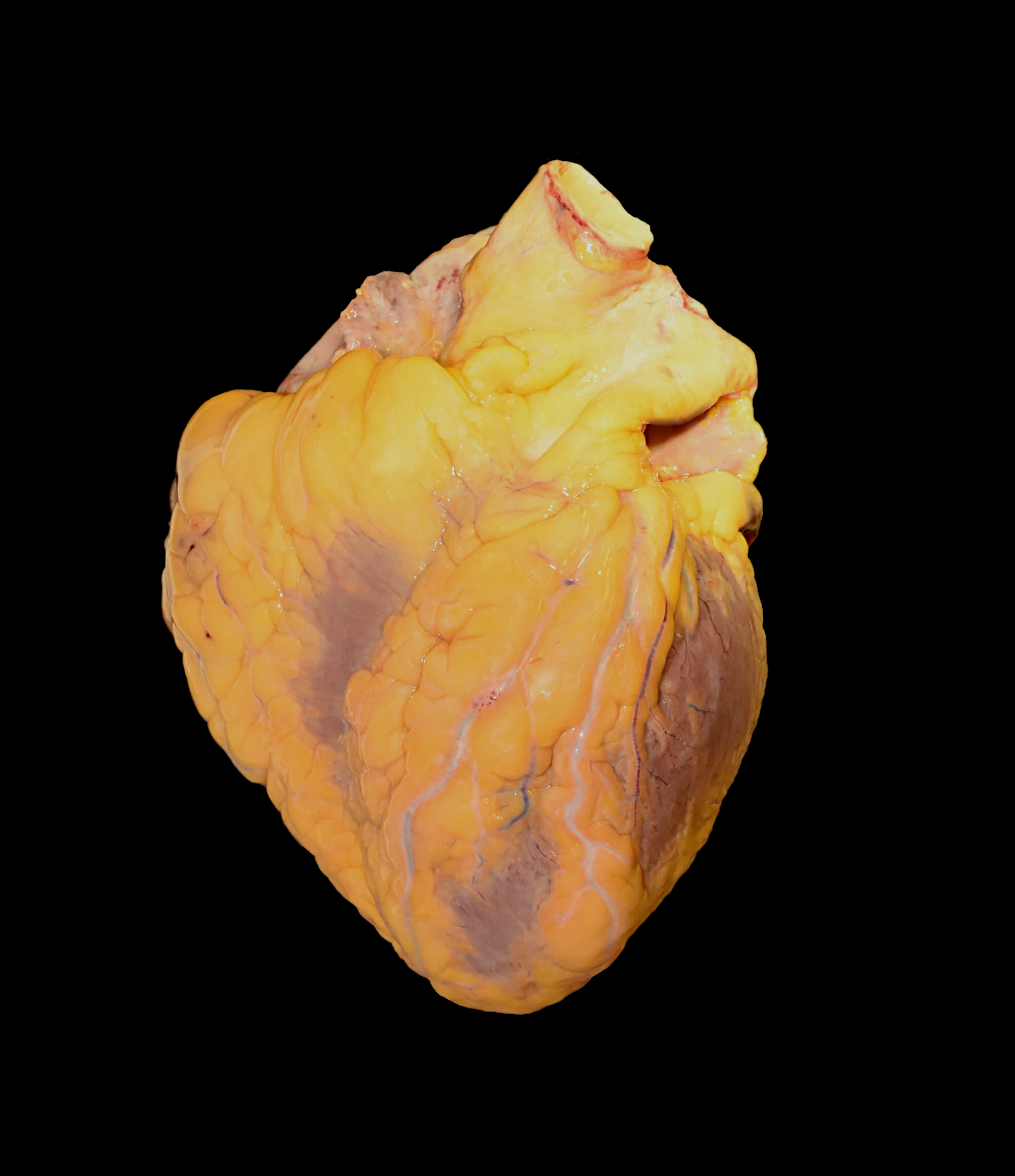 A human heart, male, adult. From an autopsy.